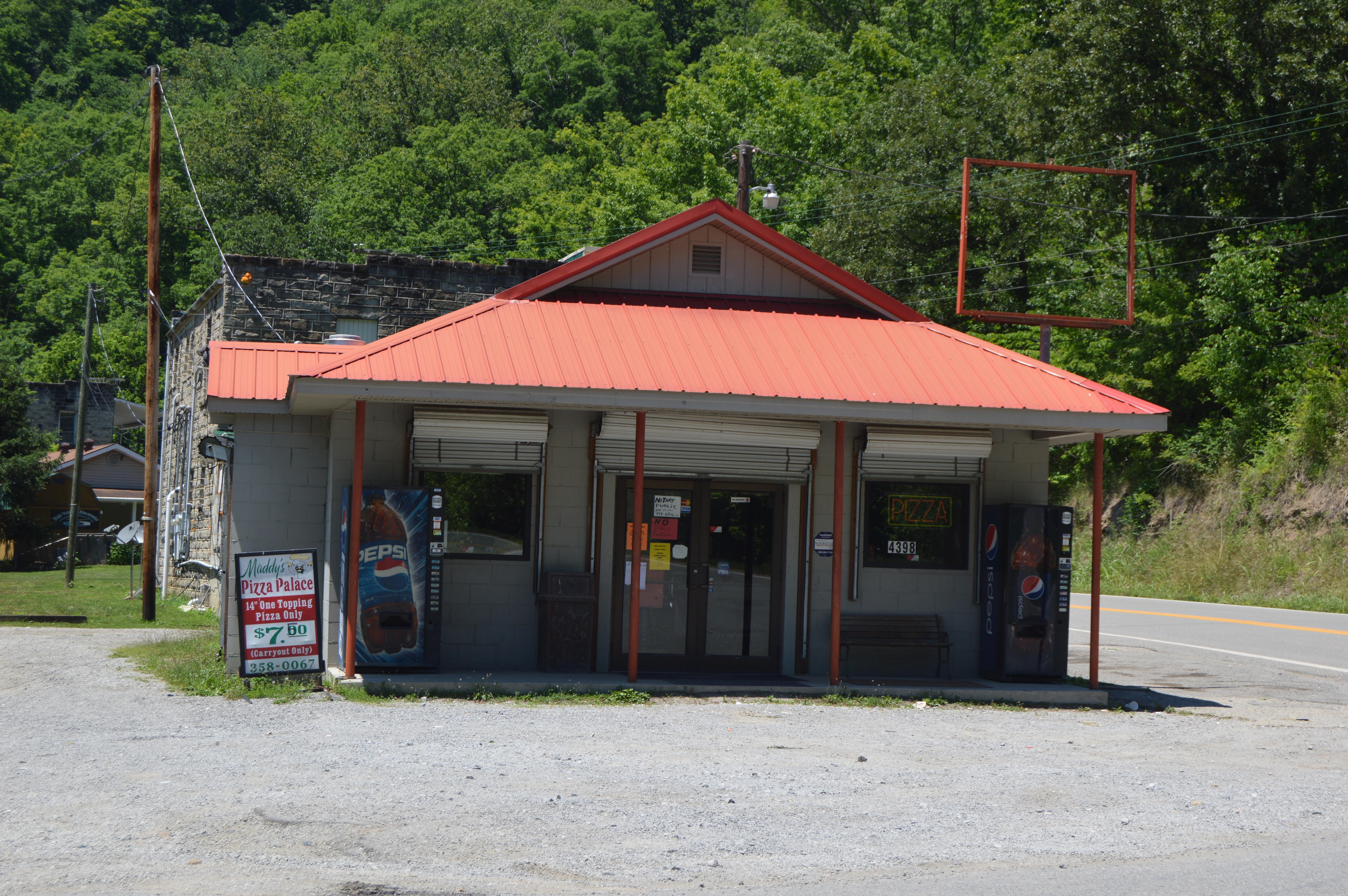 Eastern end of Maddy's Pizza Palace, a small restaurant located at 4398 Kentucky Route 550 at Bosco in Floyd County, Kentucky, United States.